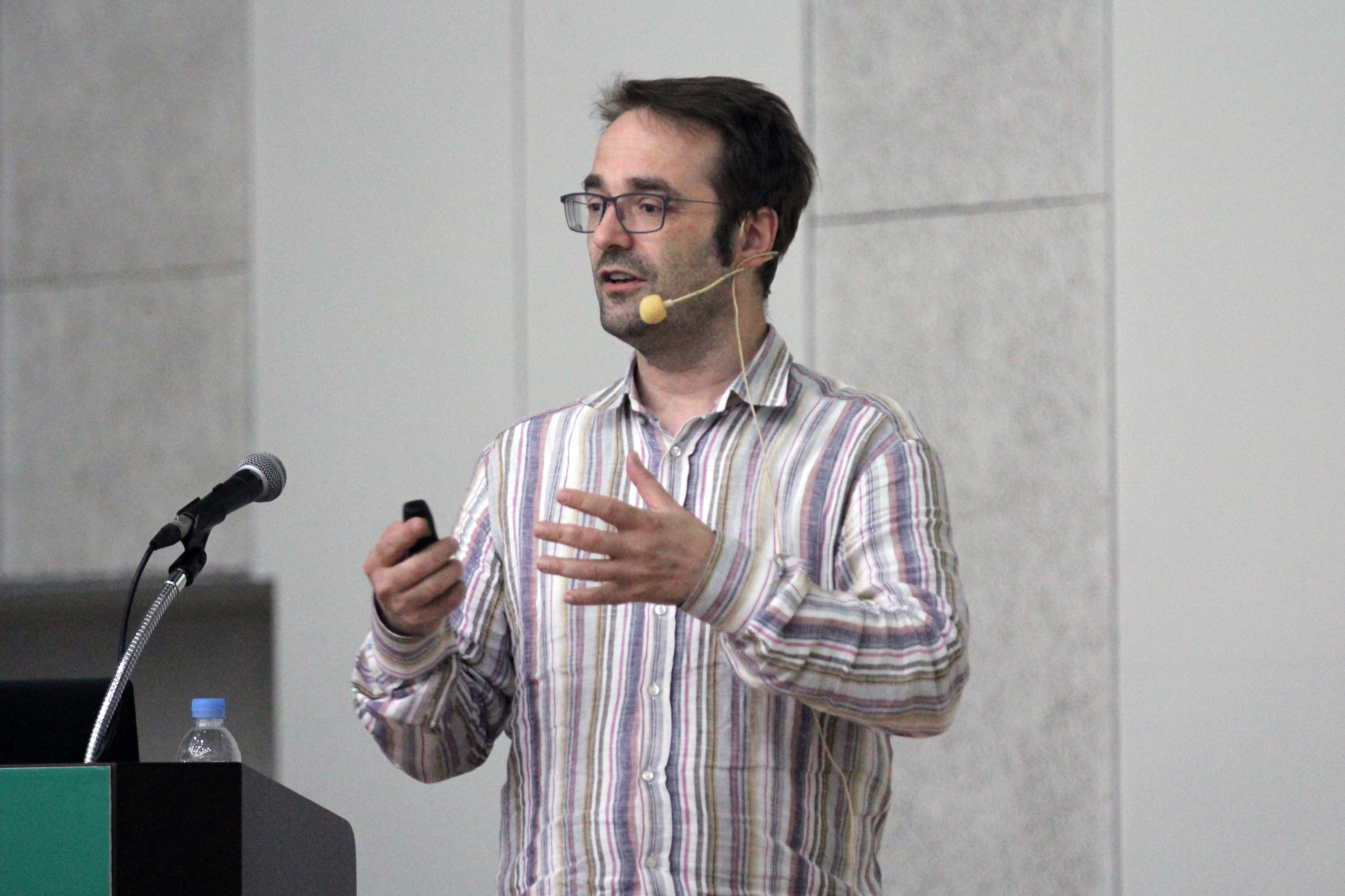 Martin Bodo Plenio speaking at the IBS Conference on Quantum Nanoscience in Ewha Womans University, South Korea.